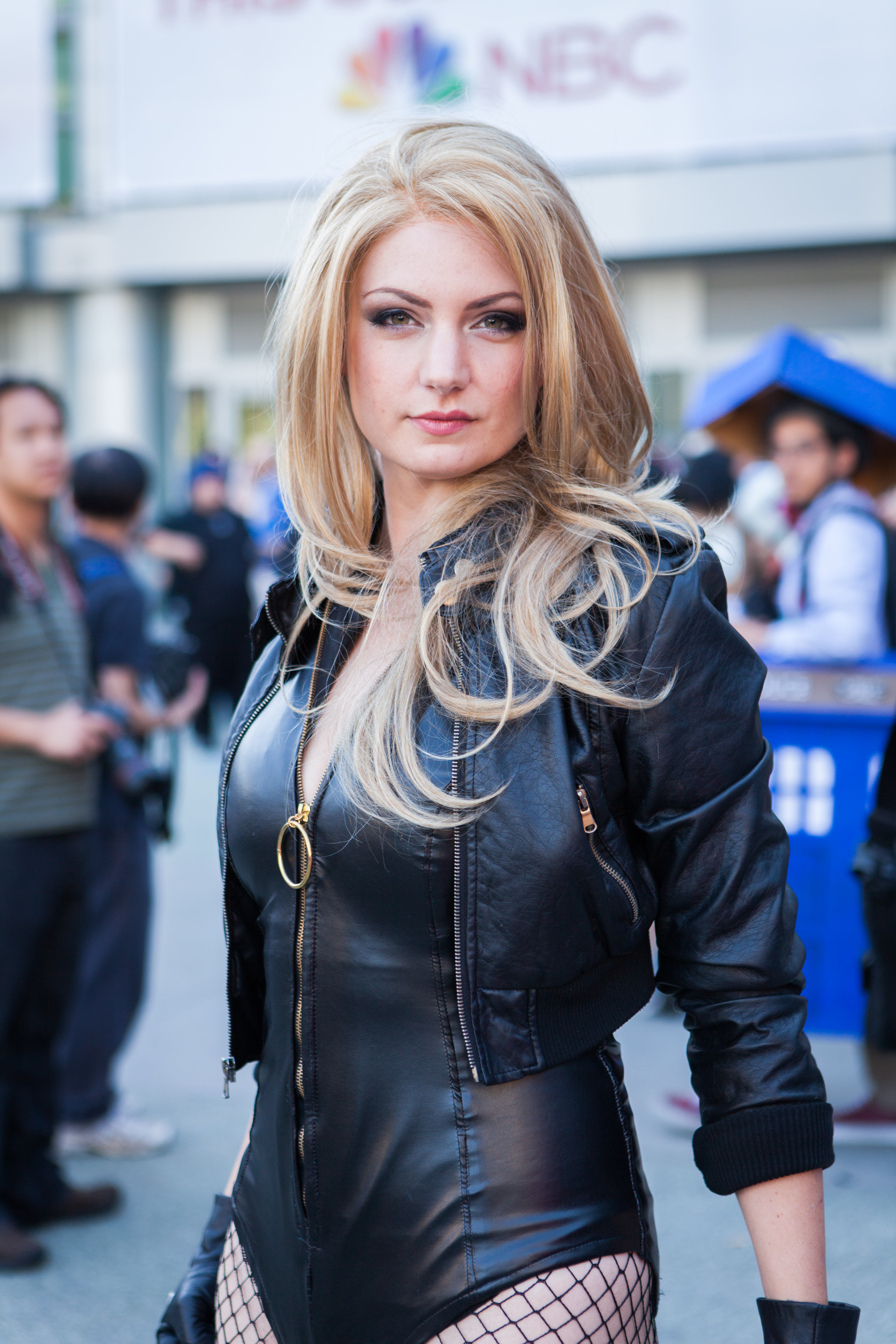 Wondercon 2015-7884